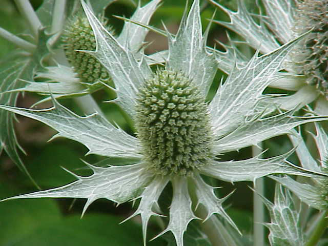 Species: Eryngium giganteum Family: Apiaceae Image No. 1